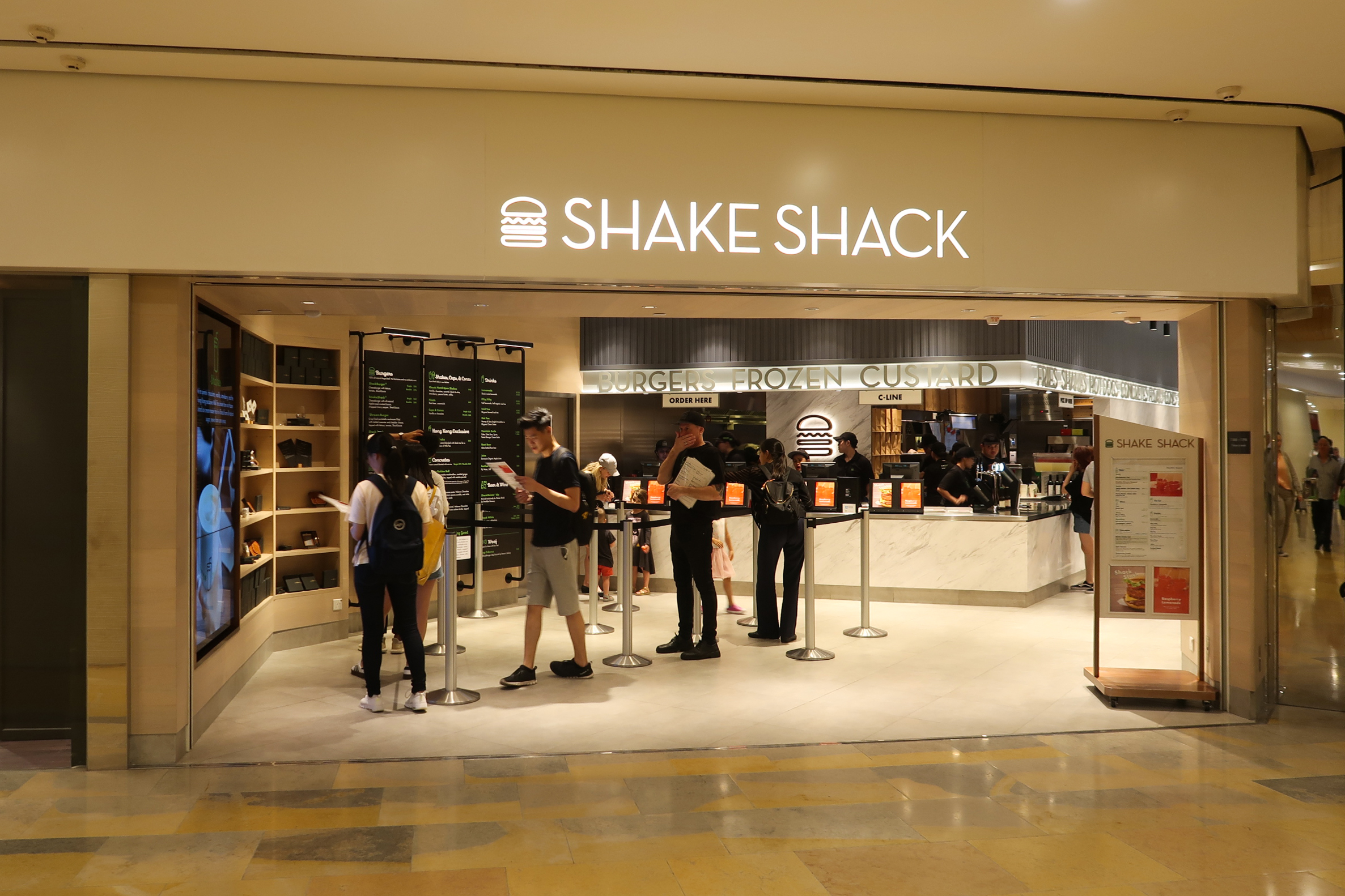 Snake Shack in Pacific Place